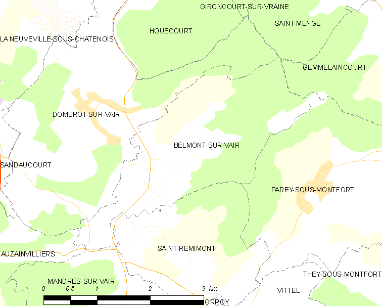 Map of French municipality Belmont-sur-Vair